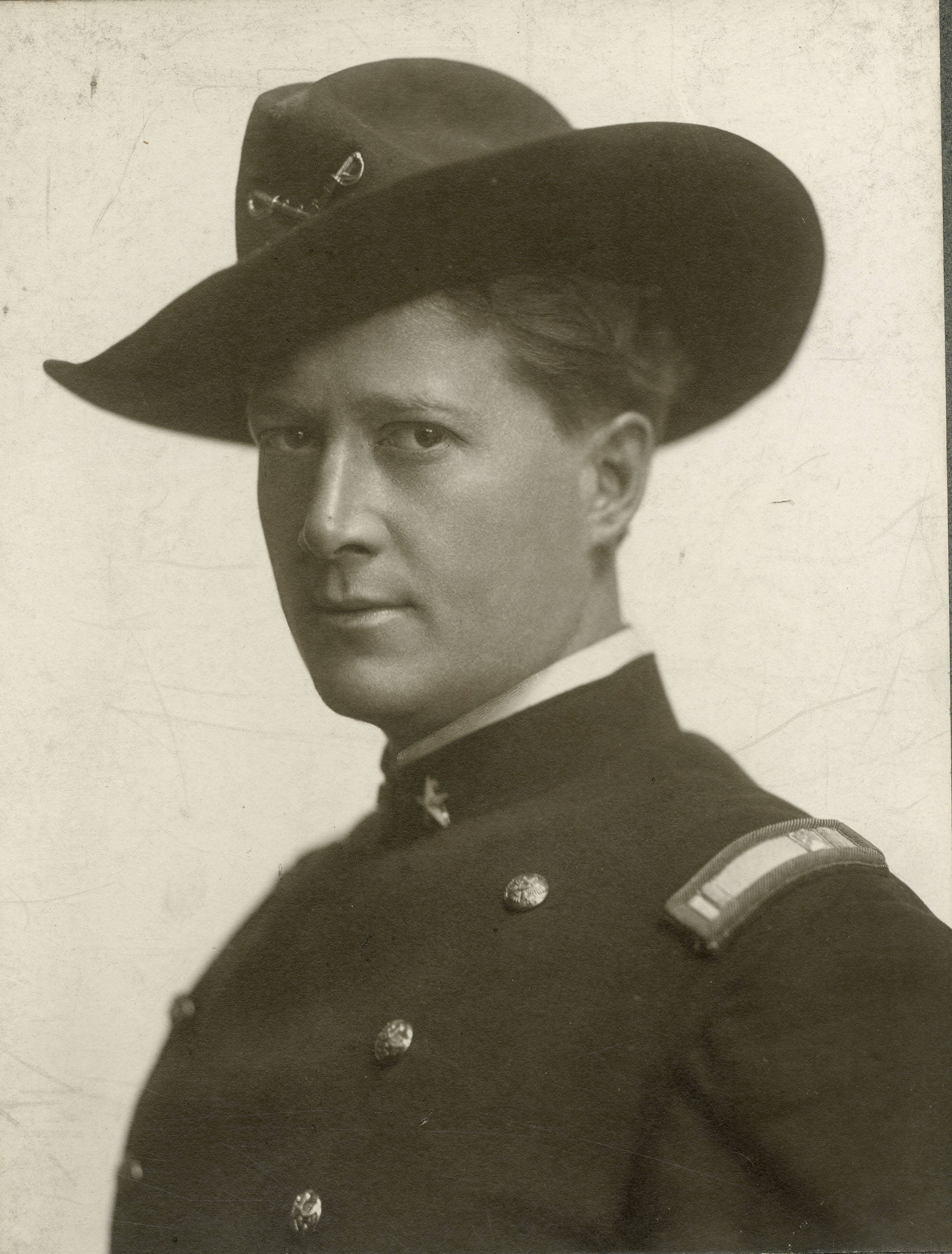 William P. Carleton Subjects: actors